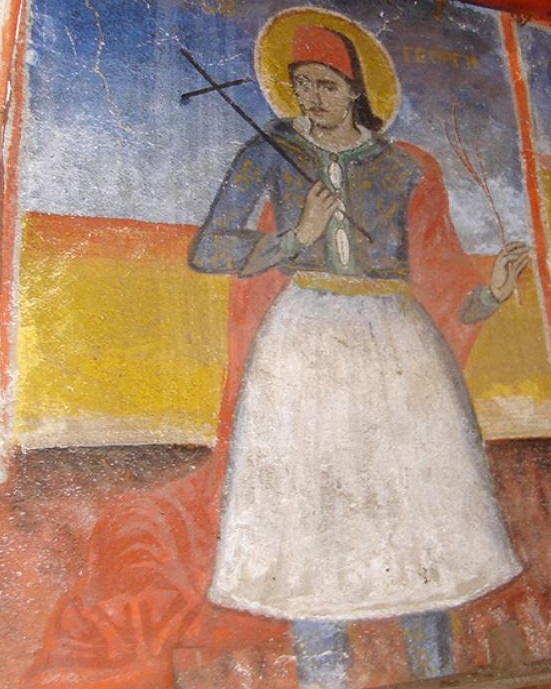 Saint Elijah Church in Bogoroditsa Fresco 2